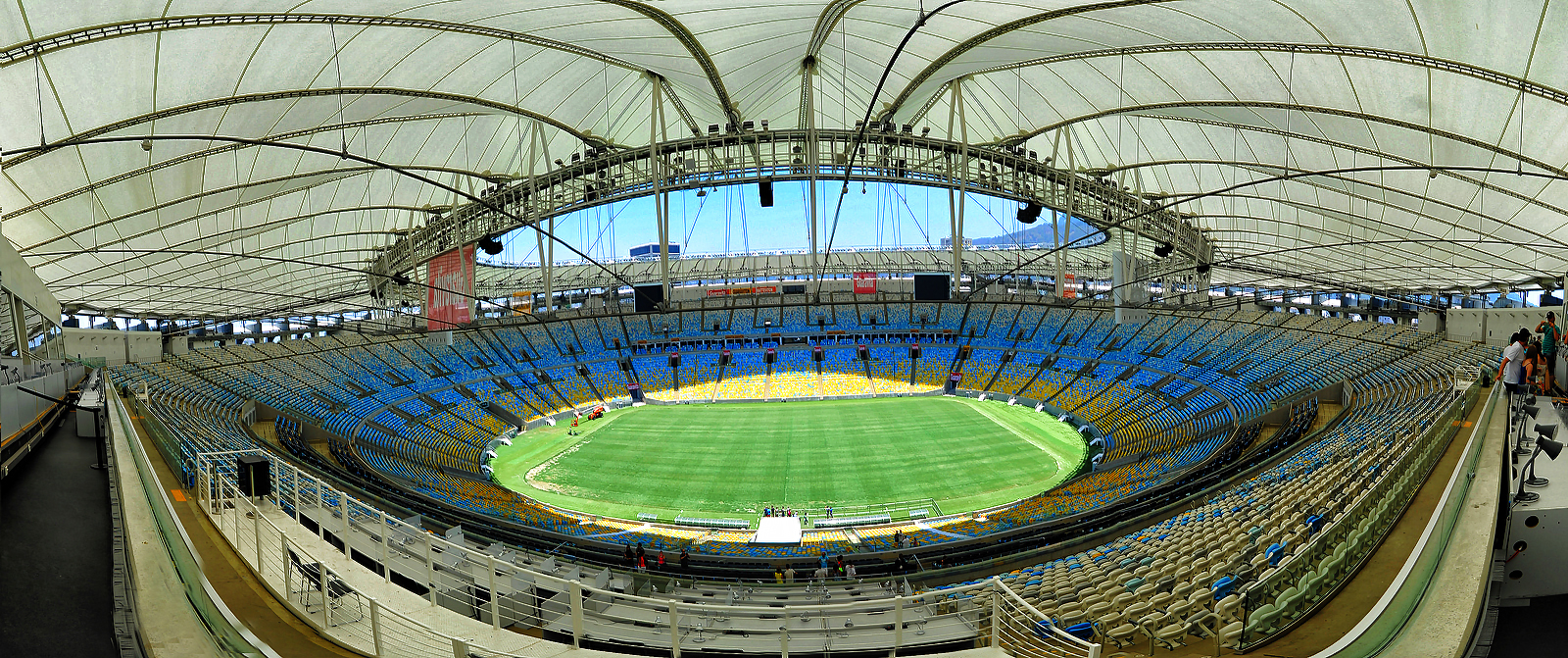 Maracanã Stadium in Rio de Janeiro (RJ), Brazil